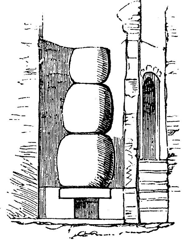 A water boiler (miliarium) of the Old Baths at Pompeii.